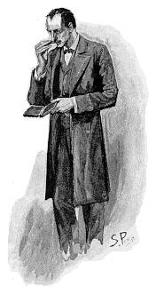 Sherlock Holmes